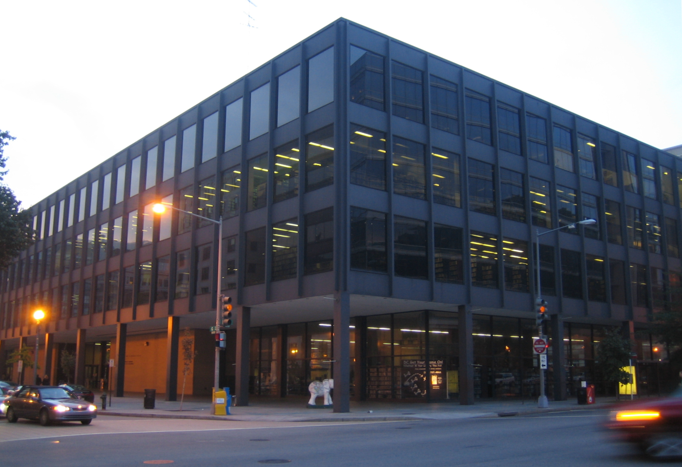 Martin Luther King Jr. Memorial Library in Washington, D.C.